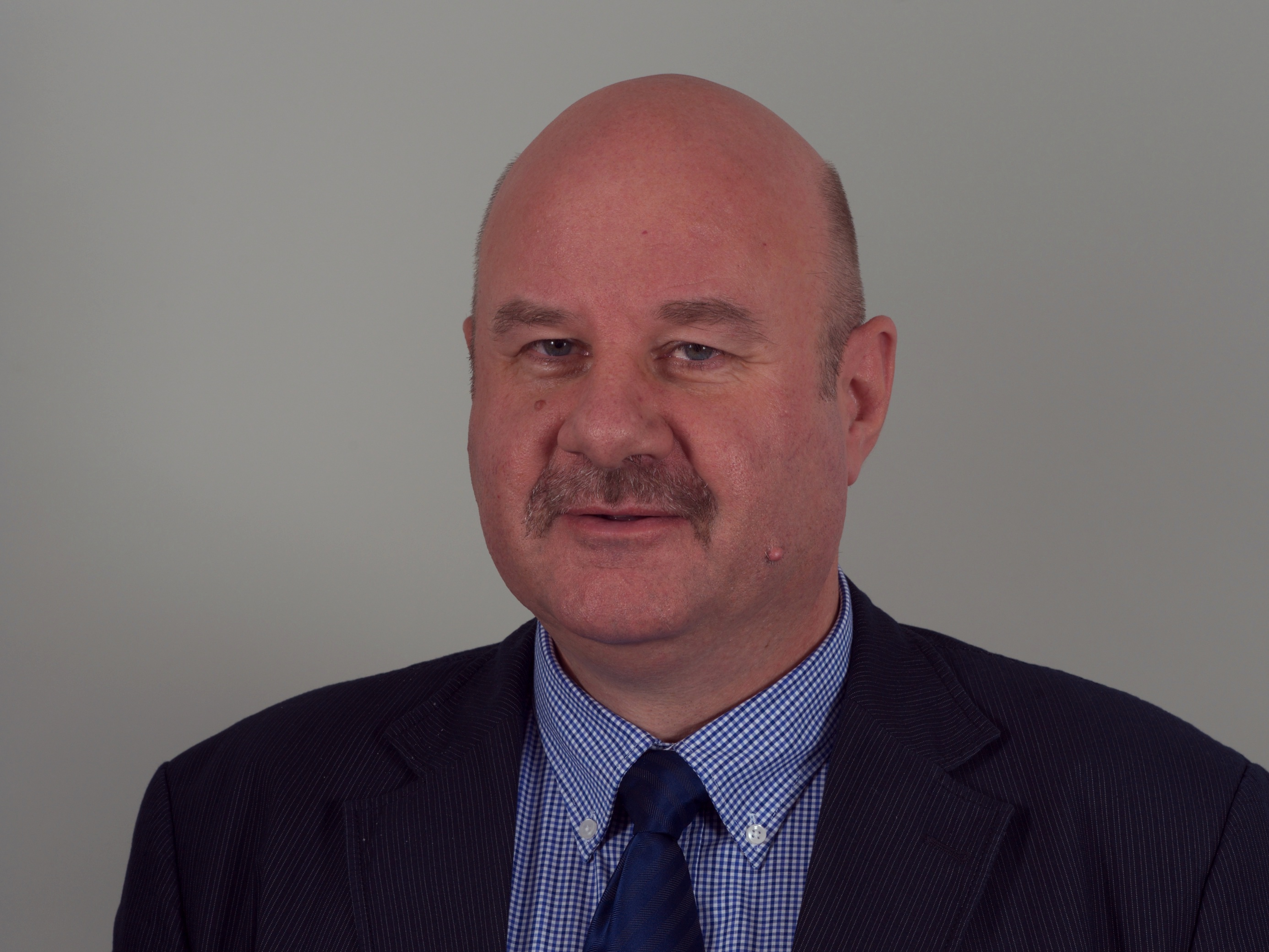 Wikipedia im Landtag – Sachsen-Anhalt 13./14. Dezember 2012 in MagdeburgDieses Foto wurde im Rahmen des Projektes „Wikipedia im Landtag“ erstellt. The making of this document was supported by the Community-Budget of Wikimedia Germany. The making of this work was supported by Wikimedia Austria. For other files made with the support of Wikimedia Austria, please see the category Supported by Wikimedia Österreich. Personality rights warningAlthough this work is freely licensed or in the public domain, the person(s) shown may have rights that legally restrict certain re-uses unless those depicted consent to such uses. In these cases, a model release or other evidence of consent could protect you from infringement claims.